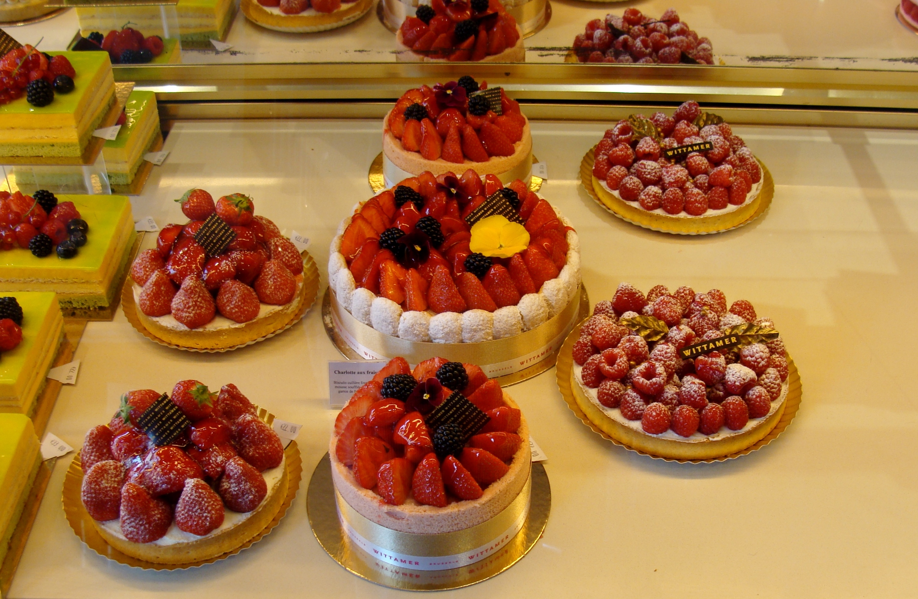 Strawberry cream cakes in a Brysselian confectionery shop